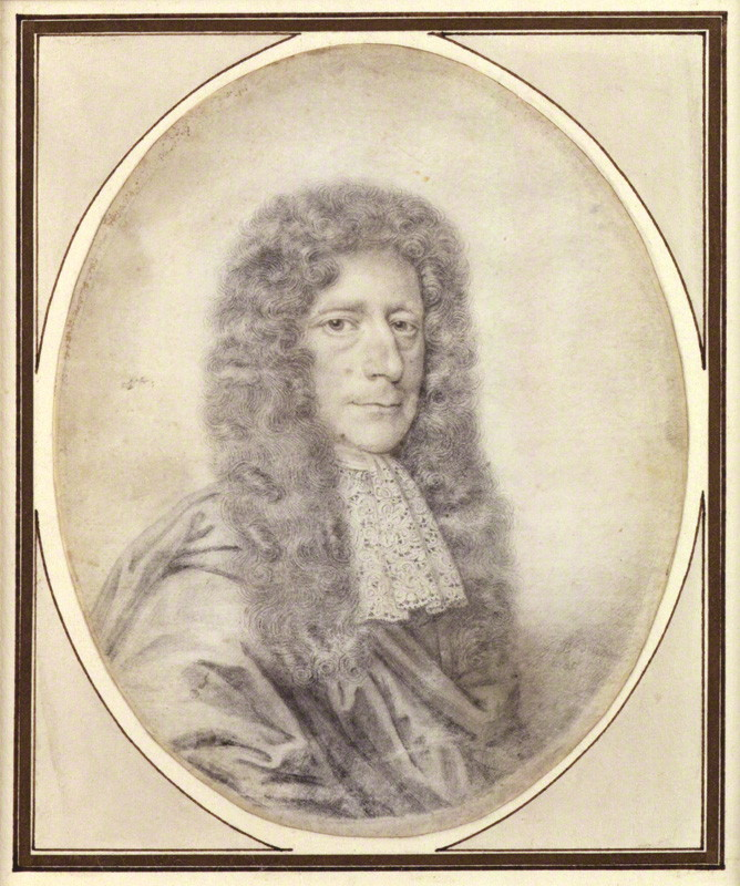 Edmund Waller, by David Loggan (1634-1692), plumbago on vellum, 1685 (5.5 x 4.5 inches), in National Portrait Gallery, London. NPG 4494.